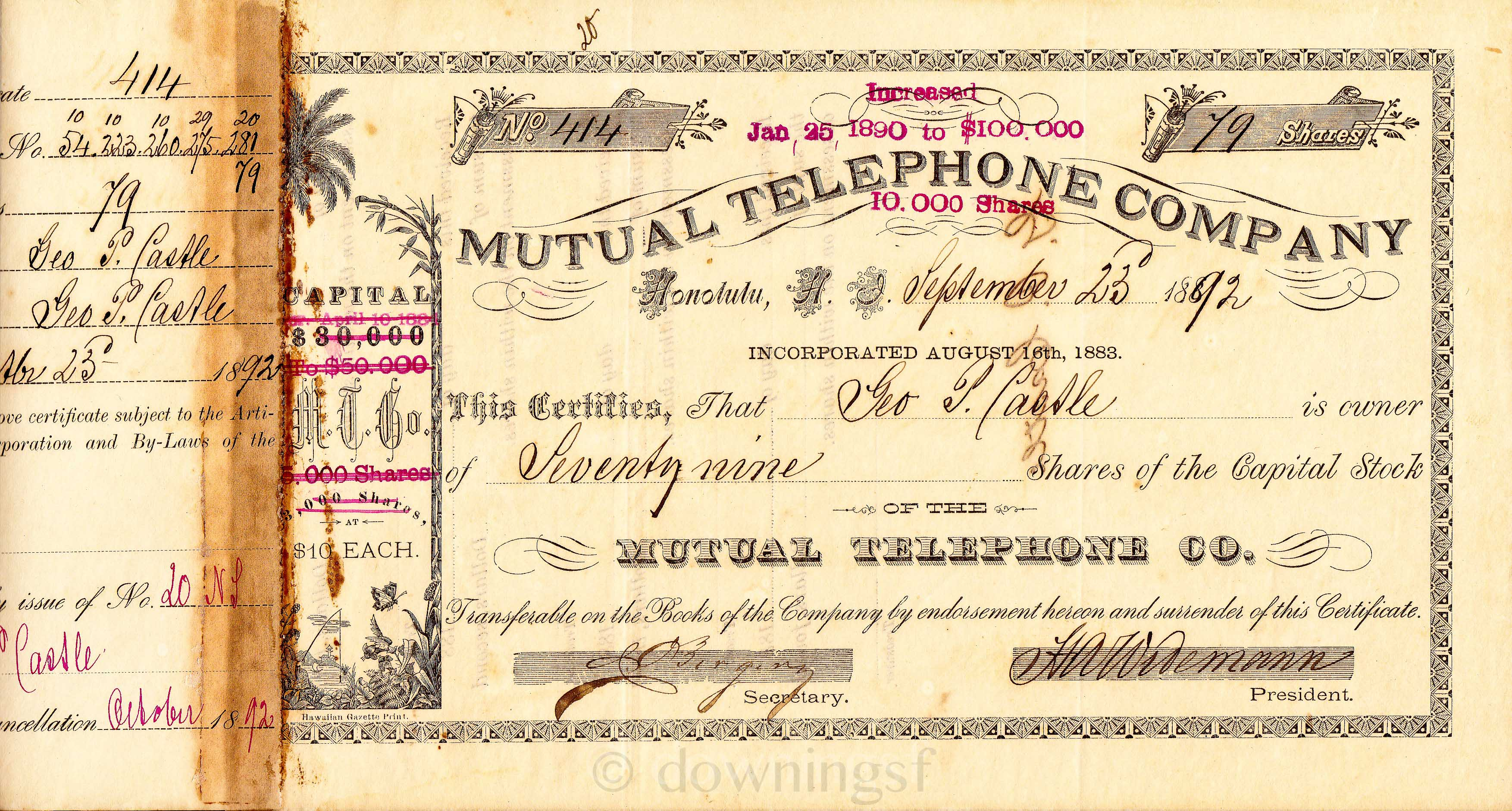 Historic company document. A stock certificate from 1892.